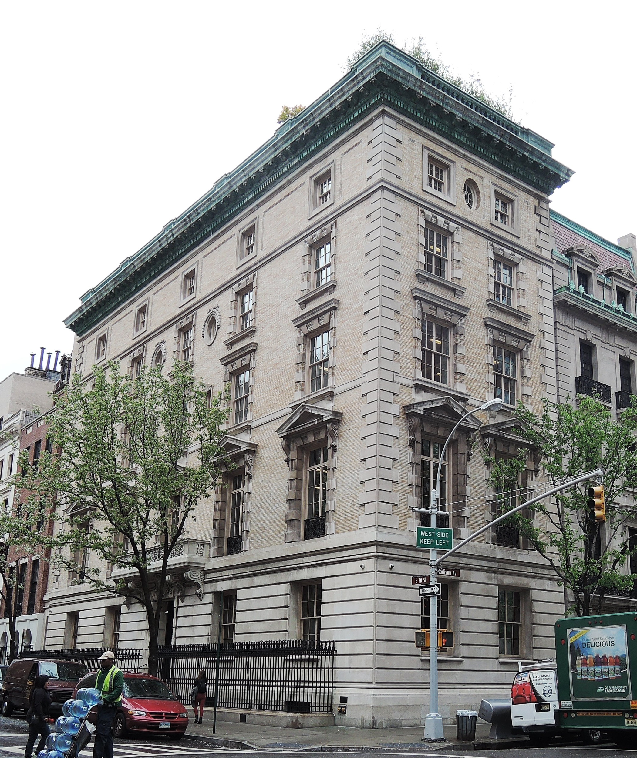 Looking north at Stuyvesant Fish house on a cloudy day.